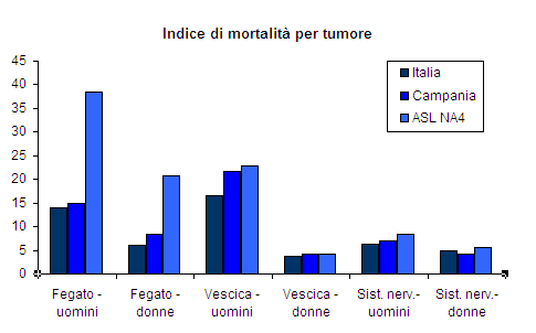 Cancer death rate (per 100000 inhabitants per year) in the triangle Acerra-Nola-Marigliano according to the article: The Lancet Oncology, vol. 5, n. 9, September 2004, pag. 525-527, Italian “Triangle of death” linked to waste crisis